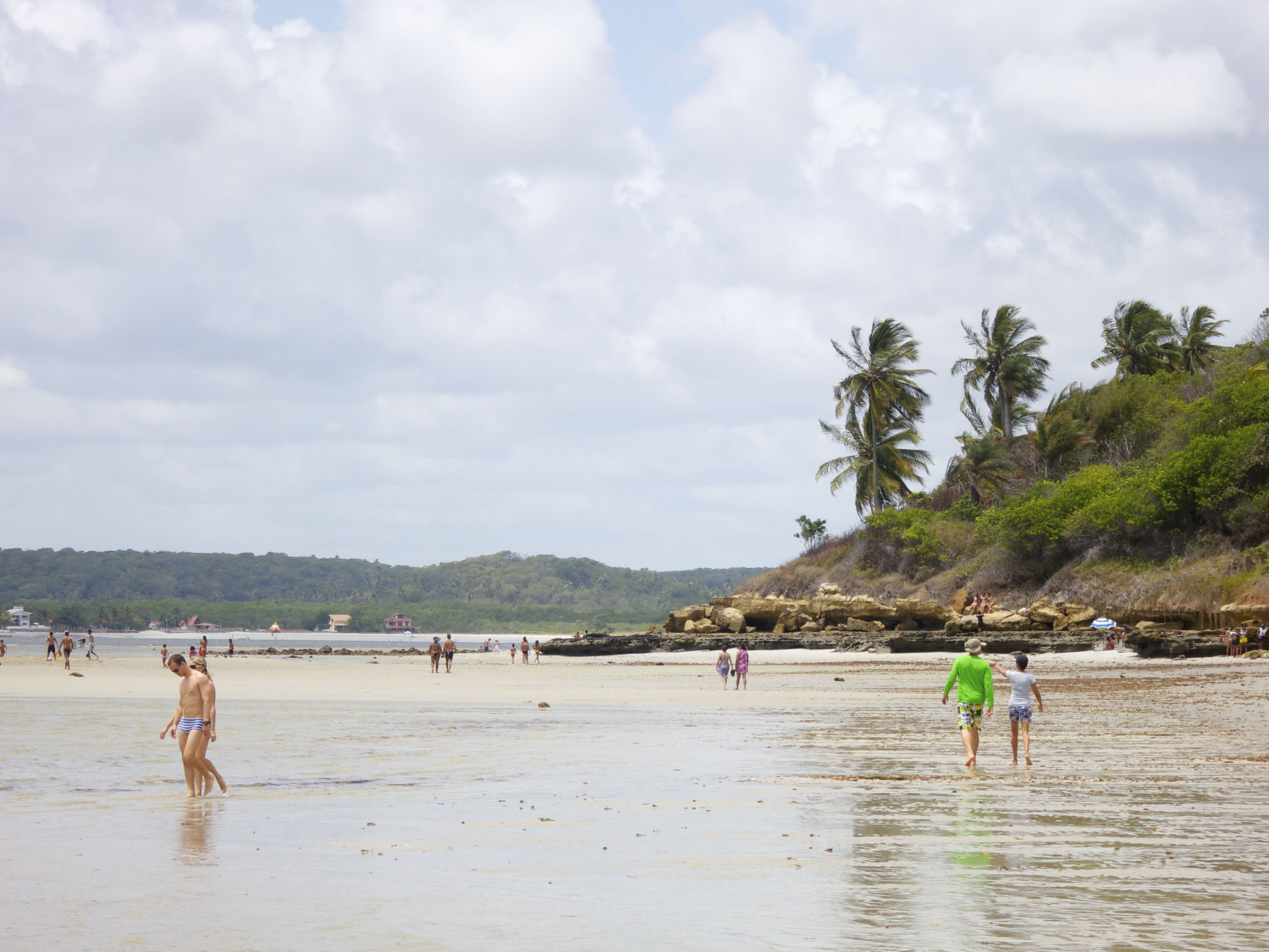 Ponta do Funil: The easternmost point of the state of Pernambuco, Brazil